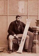 Self-Portrait